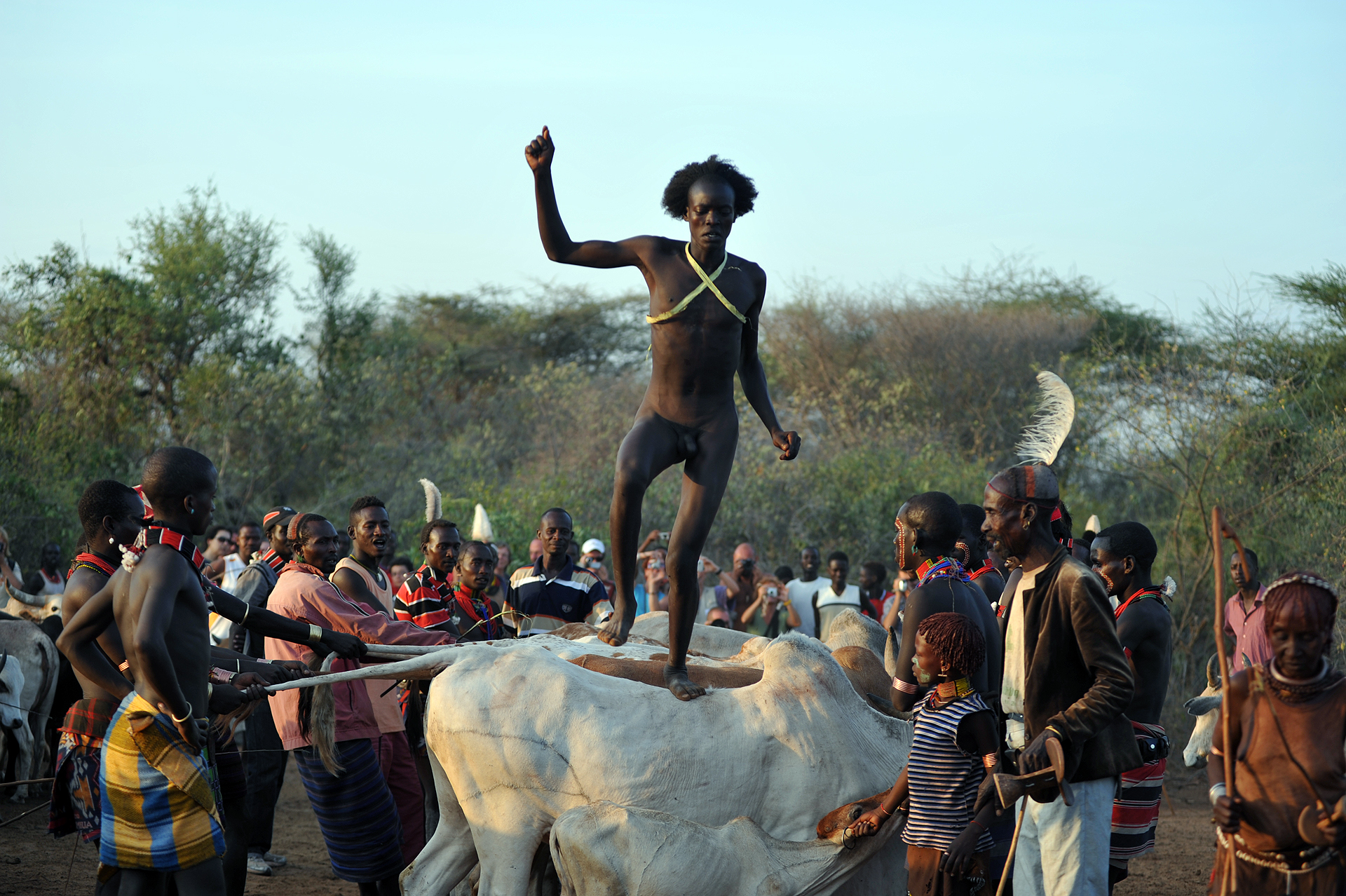 People and places in the Omo Valley, Ethiopia.